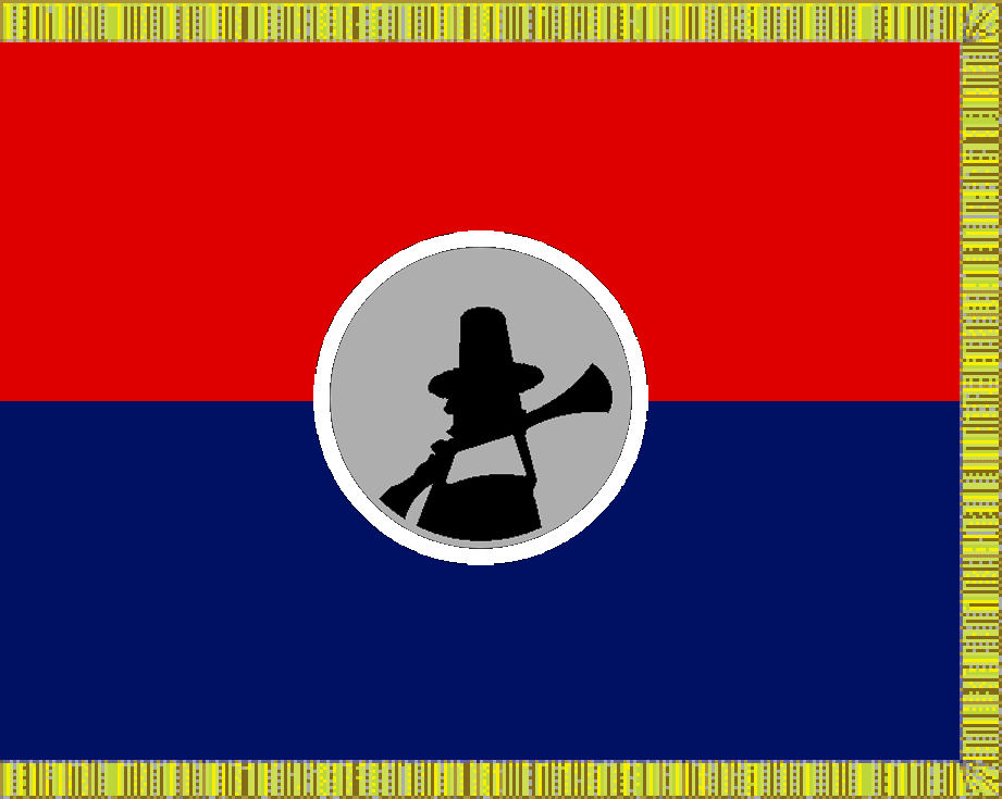 Distinguishing colour of the 94th Infantry Division (United States) 1923-1942 & 1956-1967